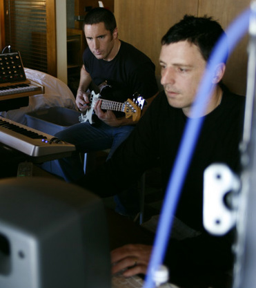 Trent Reznor (left) in Toronto, recording with Atticus Ross on a G5 setup.